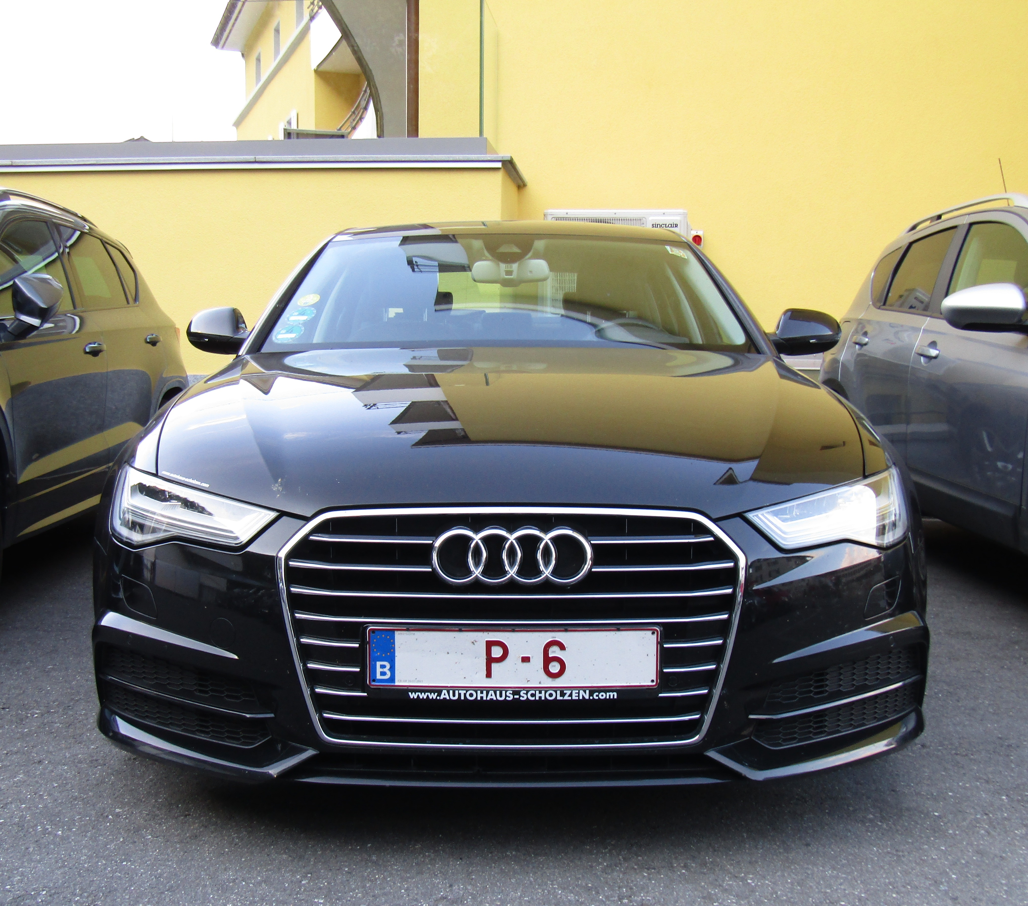 Belgian parliament license plate P6, seen in Bregenz, Austria